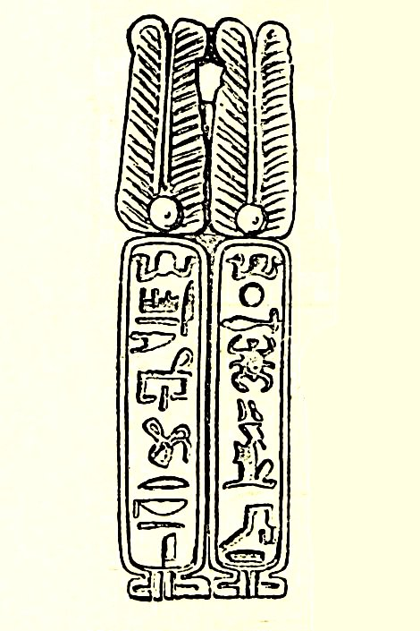 Drawing of a faience seal with double royal cartouche. Right: "Aakheperre-setepenamun", left: "Osorkon-meryamun". For long time this object was attributed to pharaoh Osorkon IV, but Aidan Dodson [The Coming of the Kushites and the Identity of Osorkon IV, in Pischikova et al. (eds.) 2014: Thebes in the First Millennium BC] recently pointed out that this object should be attributed to the earlier pharaoh Osorkon the Elder instead. Faience, unknown provenience, 21st Dynasty, Third Intermediate Period. Now in Leiden Museum (L. cat. XCVII. 330 - F.1971/9.1).